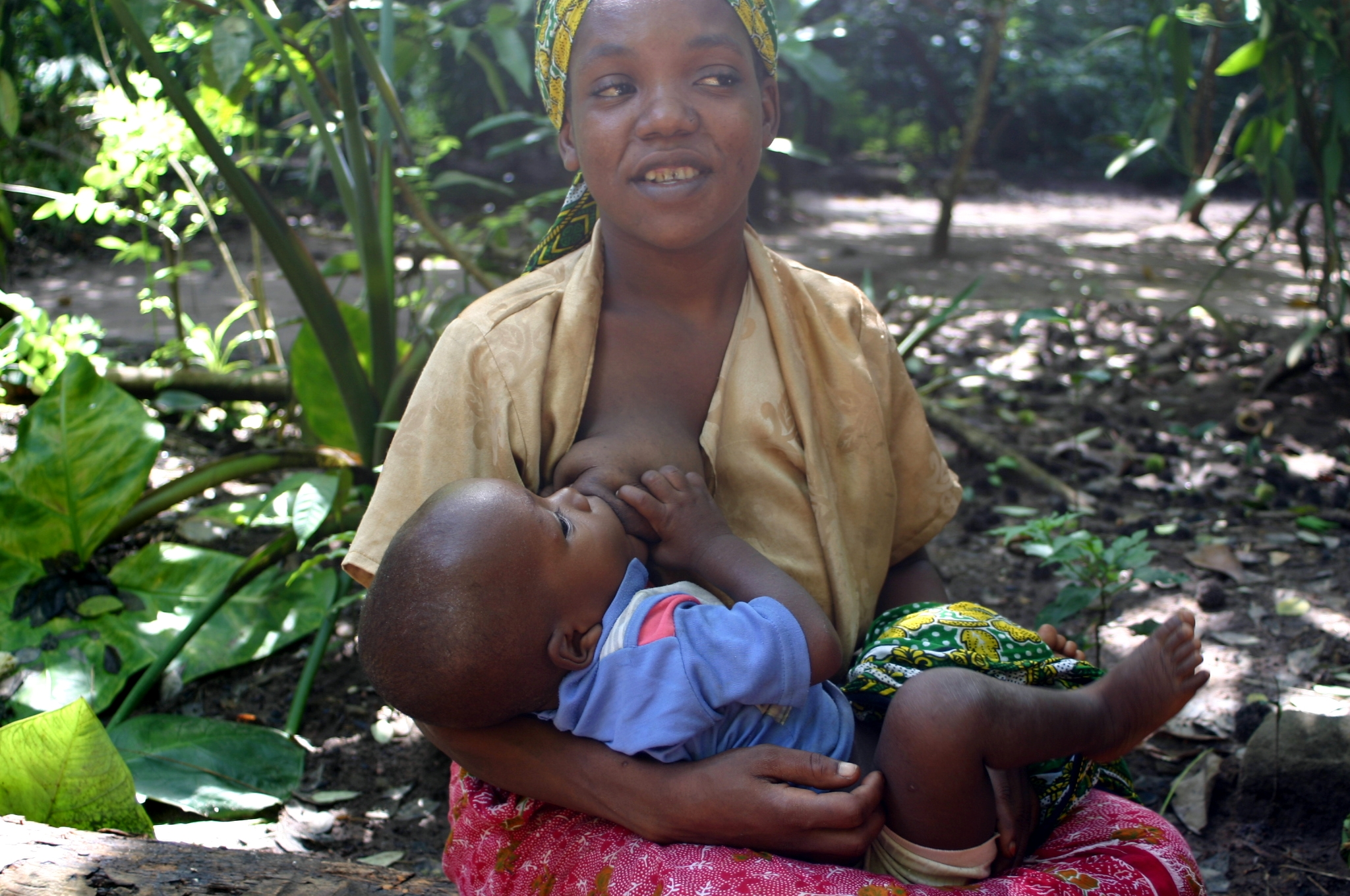 A mother breastfeeding a child at Zanzibar